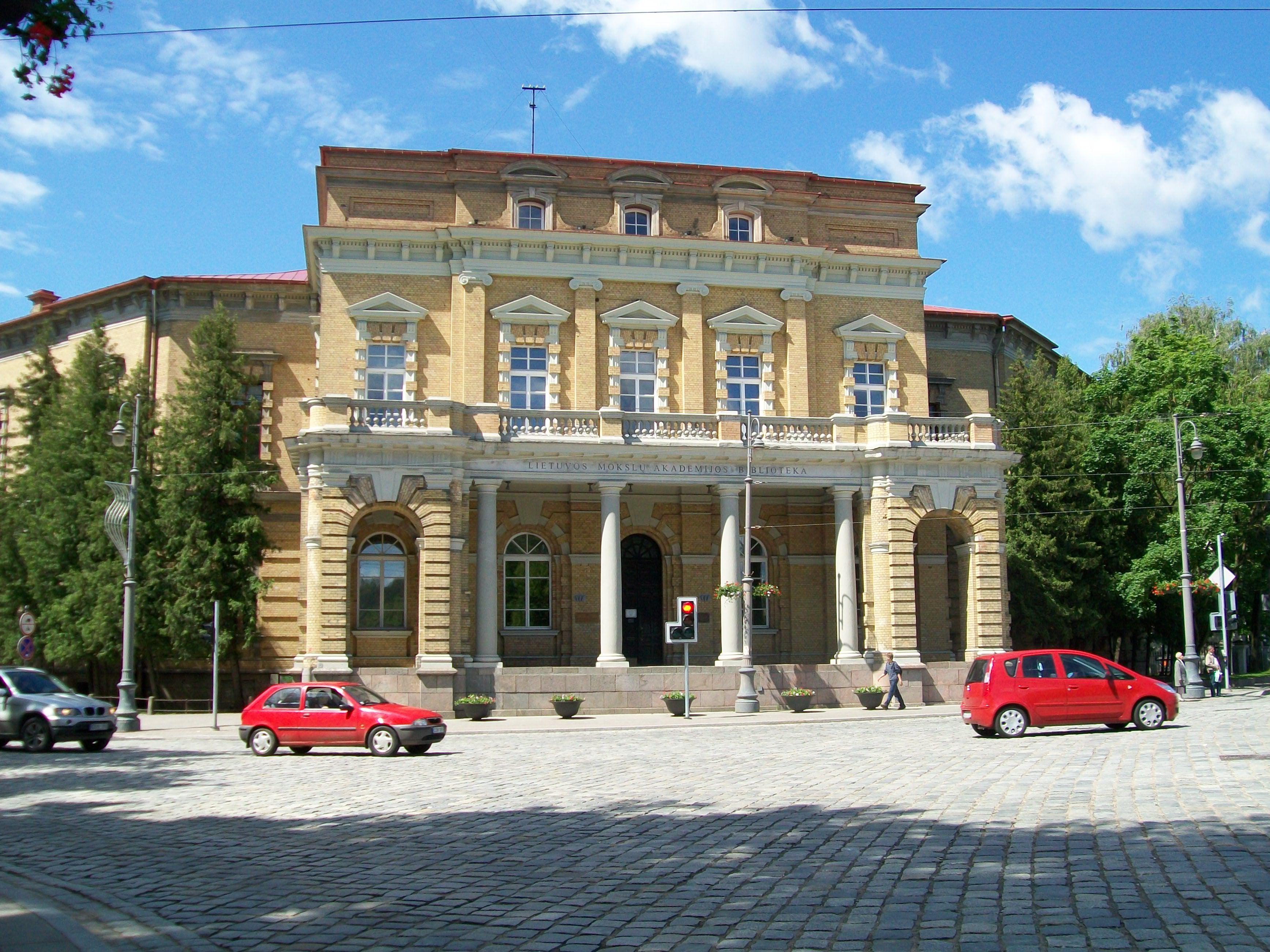 Former library of Tadeusz Wróblewski, now library of Lithuanian Academy of Sciences in Vilnius